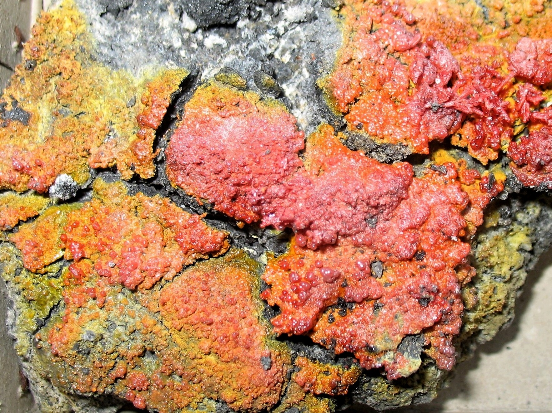 Realgar from former Kateřina Mine, Radvanice, Trutnov District, Czech Republic